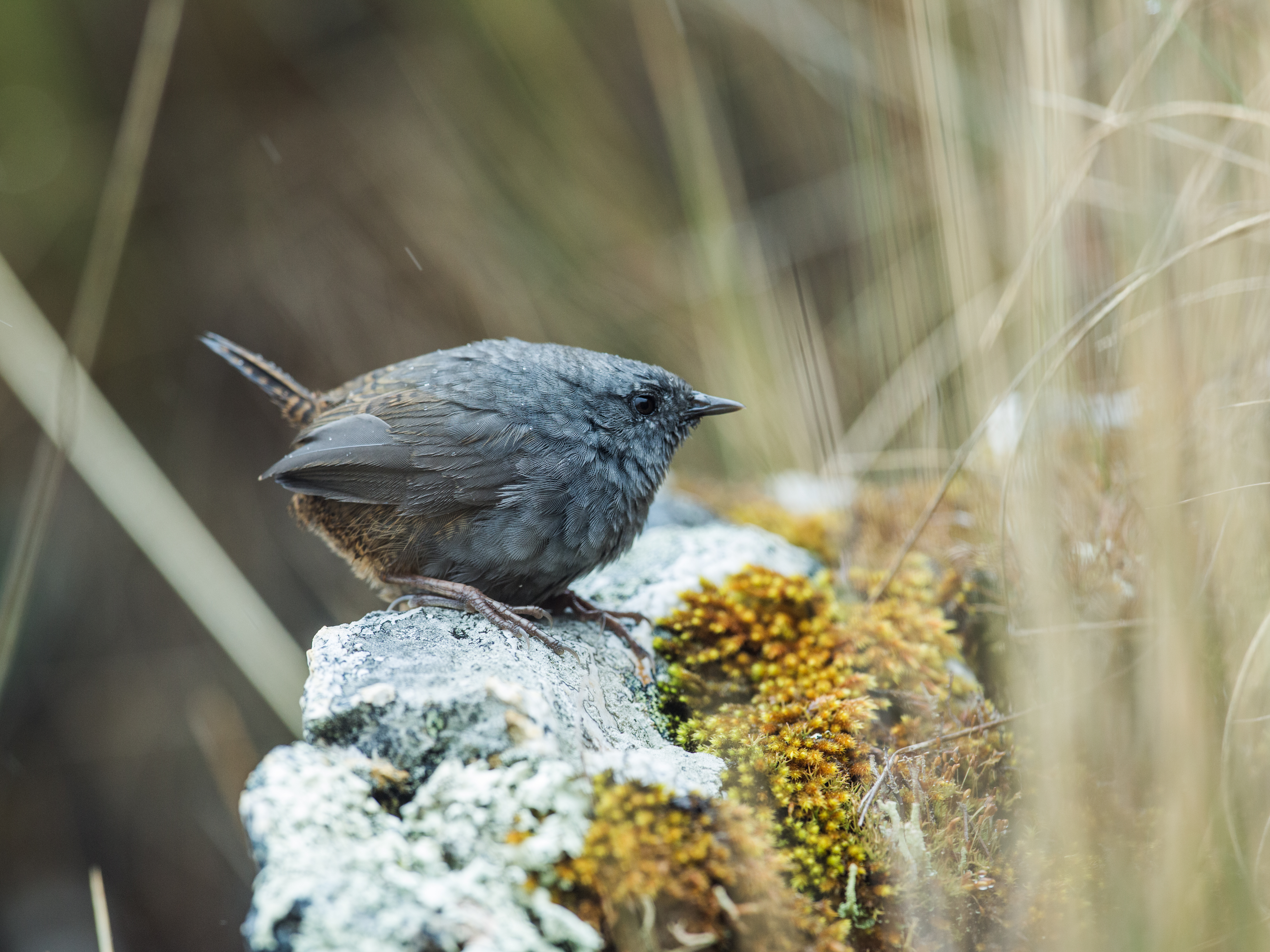 Jalca Tapaculo from Runatullo, Junín, Peru